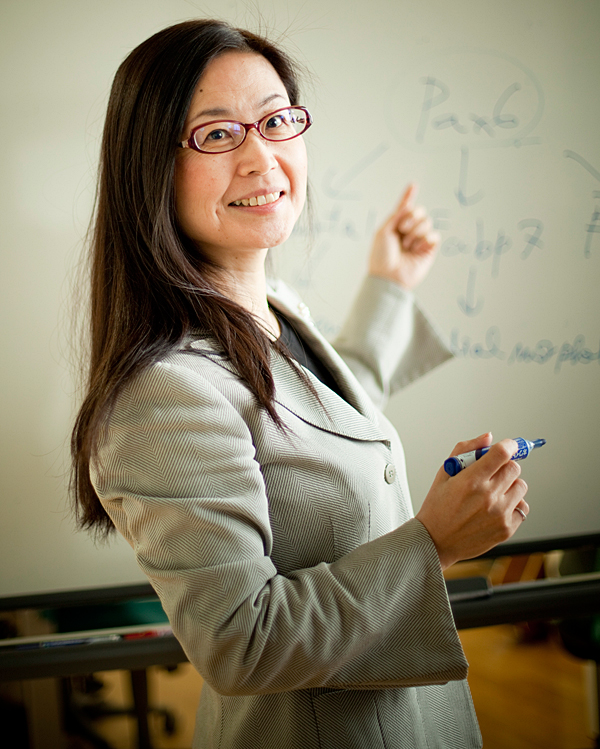 Noriko Osumi_Public Relations Office, Tohoku University School of Medicine